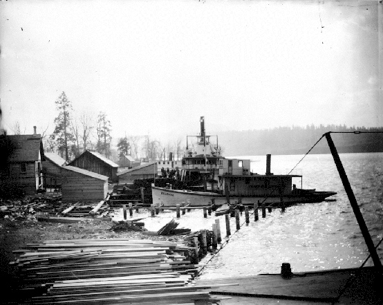 Steamboat Kelowna in foreground, at Kelowna, British Columbia, on Okanagan Lake. In background is the sternwheeler Aberdeen and the steam propeller tug York. Photograph appears to have been taken from the deck of a barge in the foreground.